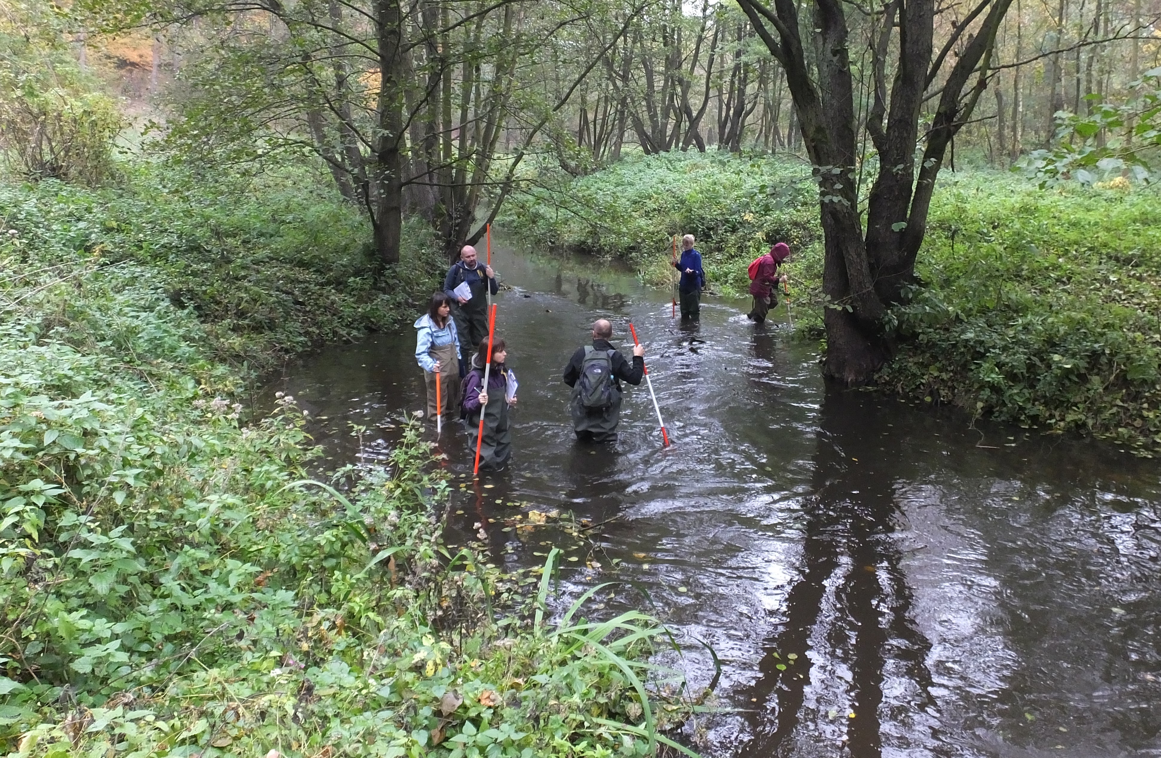 Hydromorphological elements of river water body assessment in line with method based on River Habitat Survey